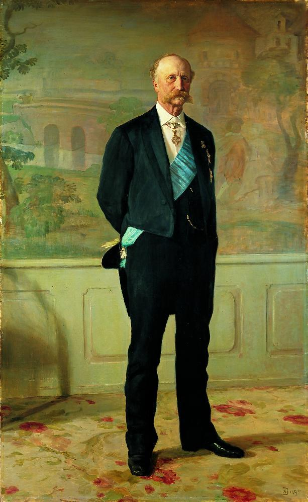 Portrait fo J.B.S. Estrup, former Danish prime minister